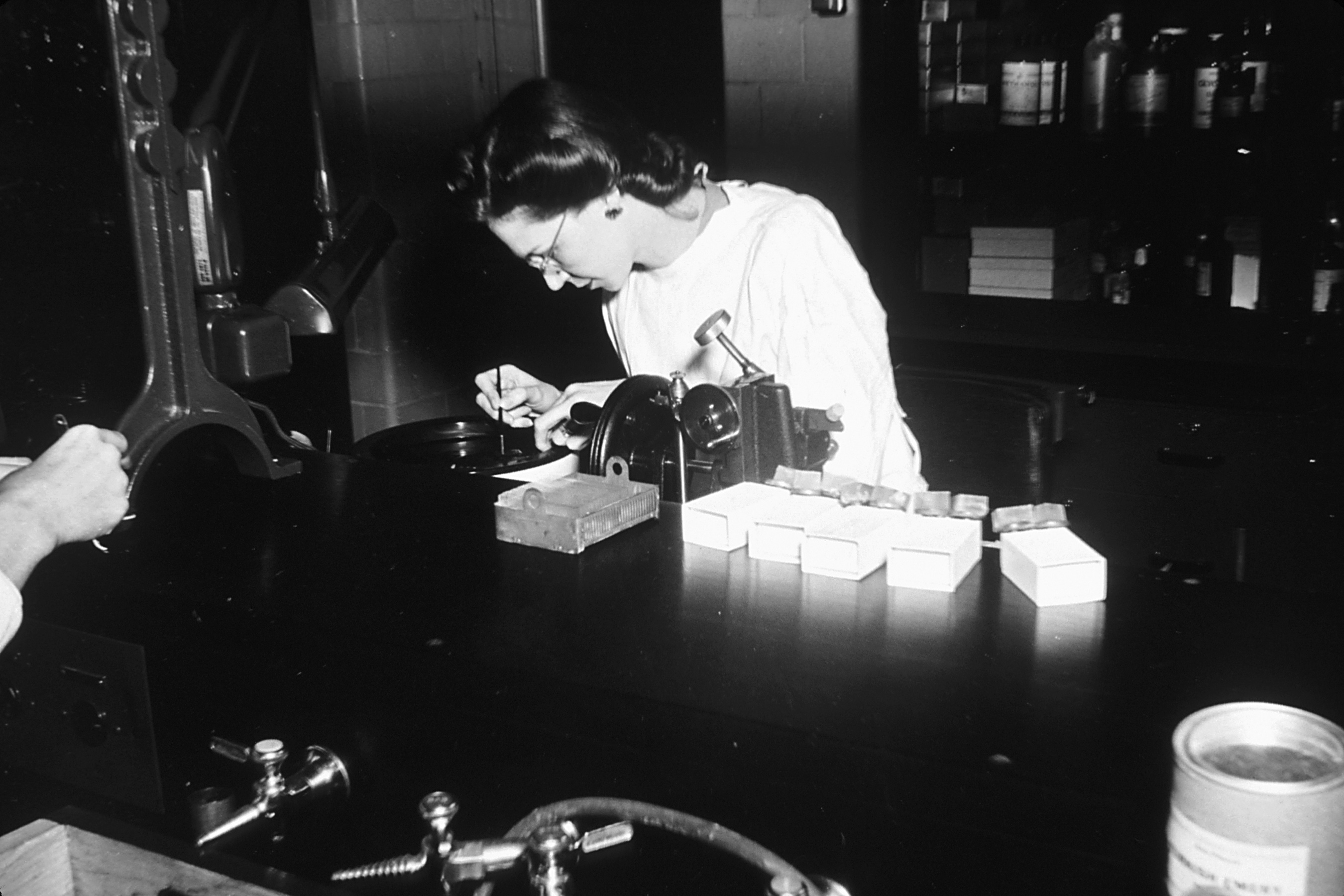 Title Histology Description A Caucasian female creating sections of tissue embedded in paraffin wax are sliced and floated on a hot-water bath in preparation for histological study. Topics/Categories Historical, Technology and Treatment Type B&W, Photo Source National Cancer Institute